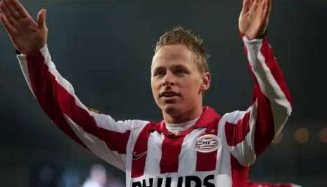 Balázs Dzsudzsák